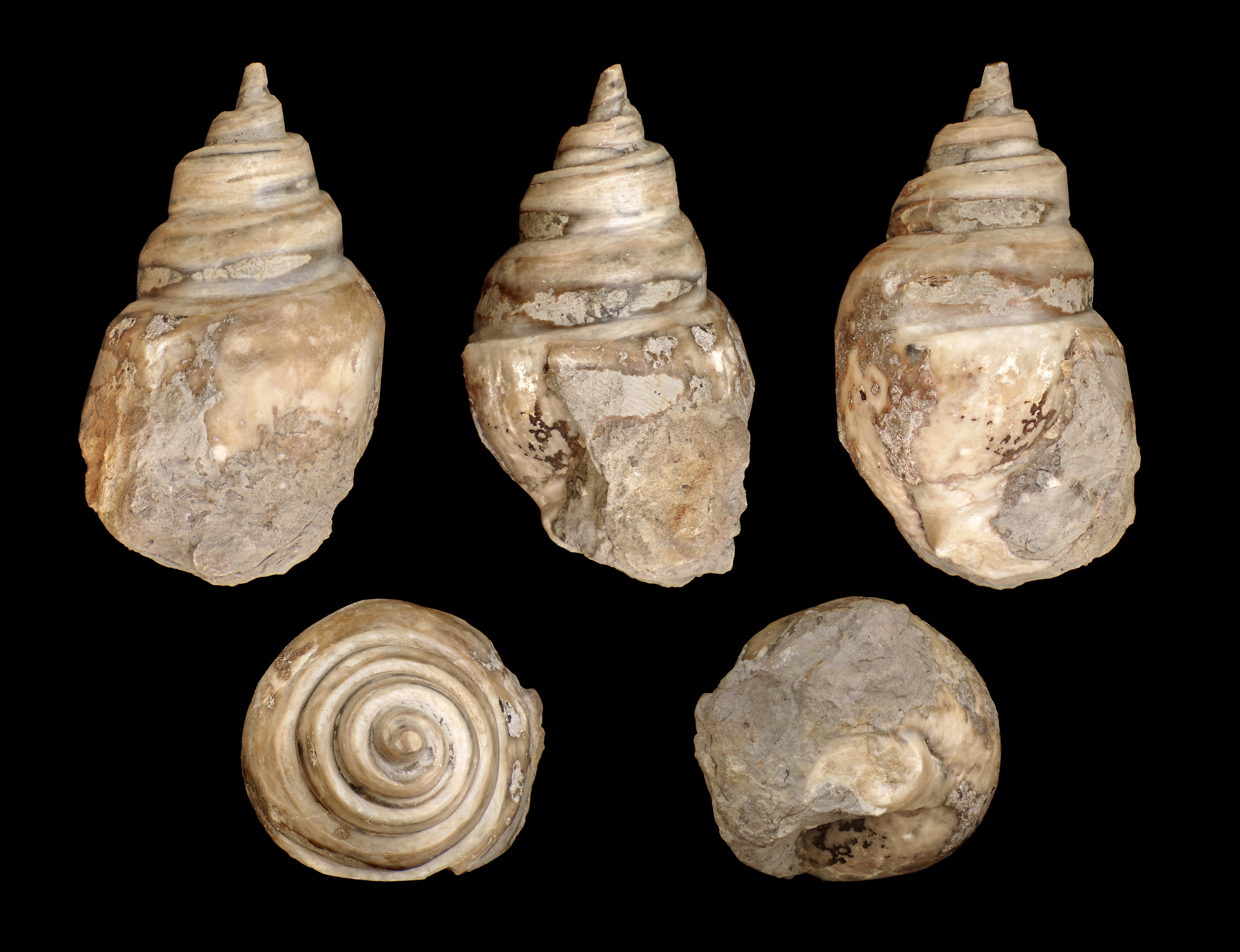 Length 12 cm; Upper Cretaceous, Gosau Formation, Rußbach near Salzburg, Austria; Shell of own collection, therefore not geocoded. Dorsal, lateral (right side), ventral, back, and front view. This picture consists of 5 single photos. The metadata refer to the dorsal view.